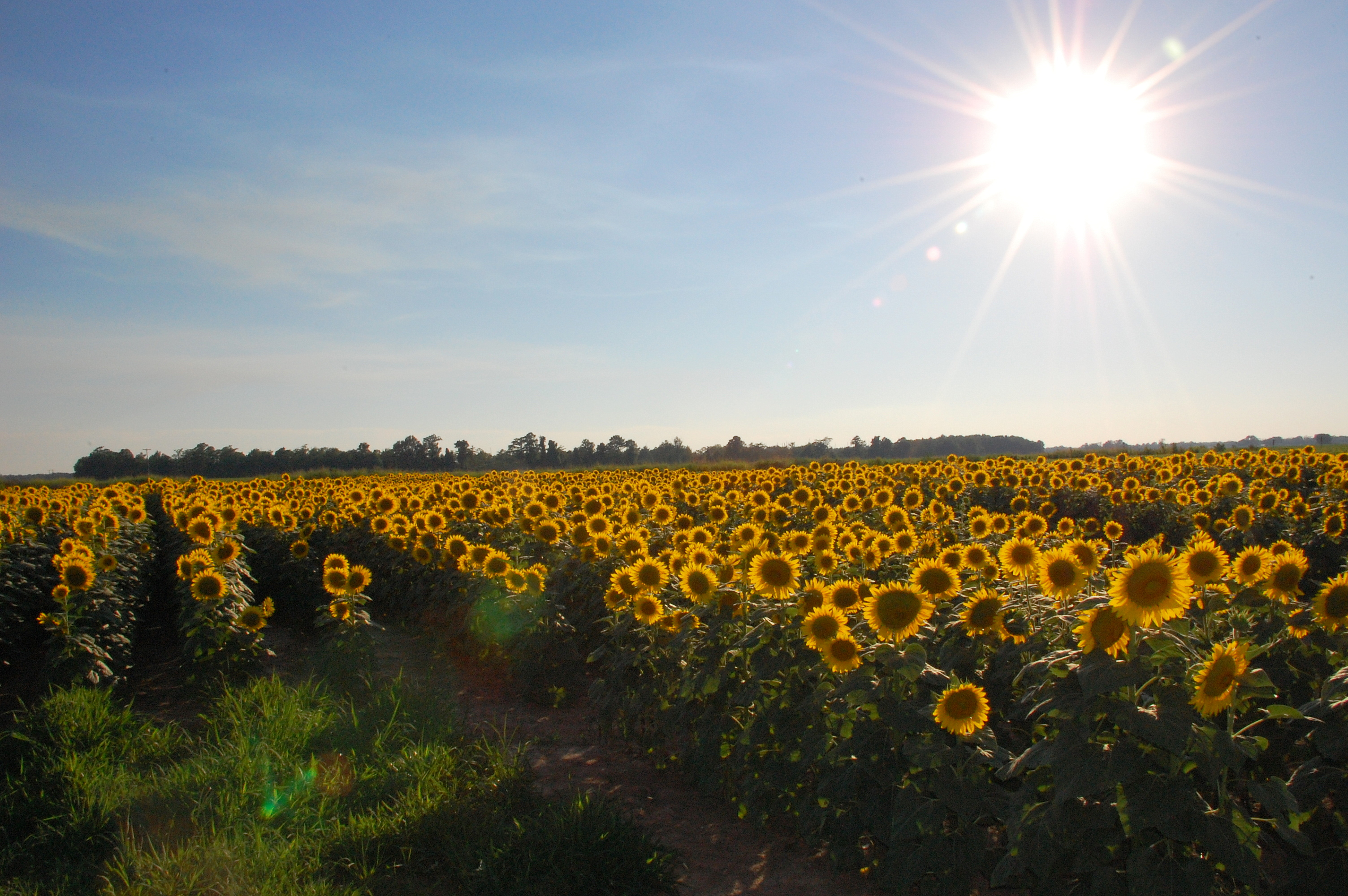 Sunflowers at late afternoon. Flowerheads facing East, away from the Sun.